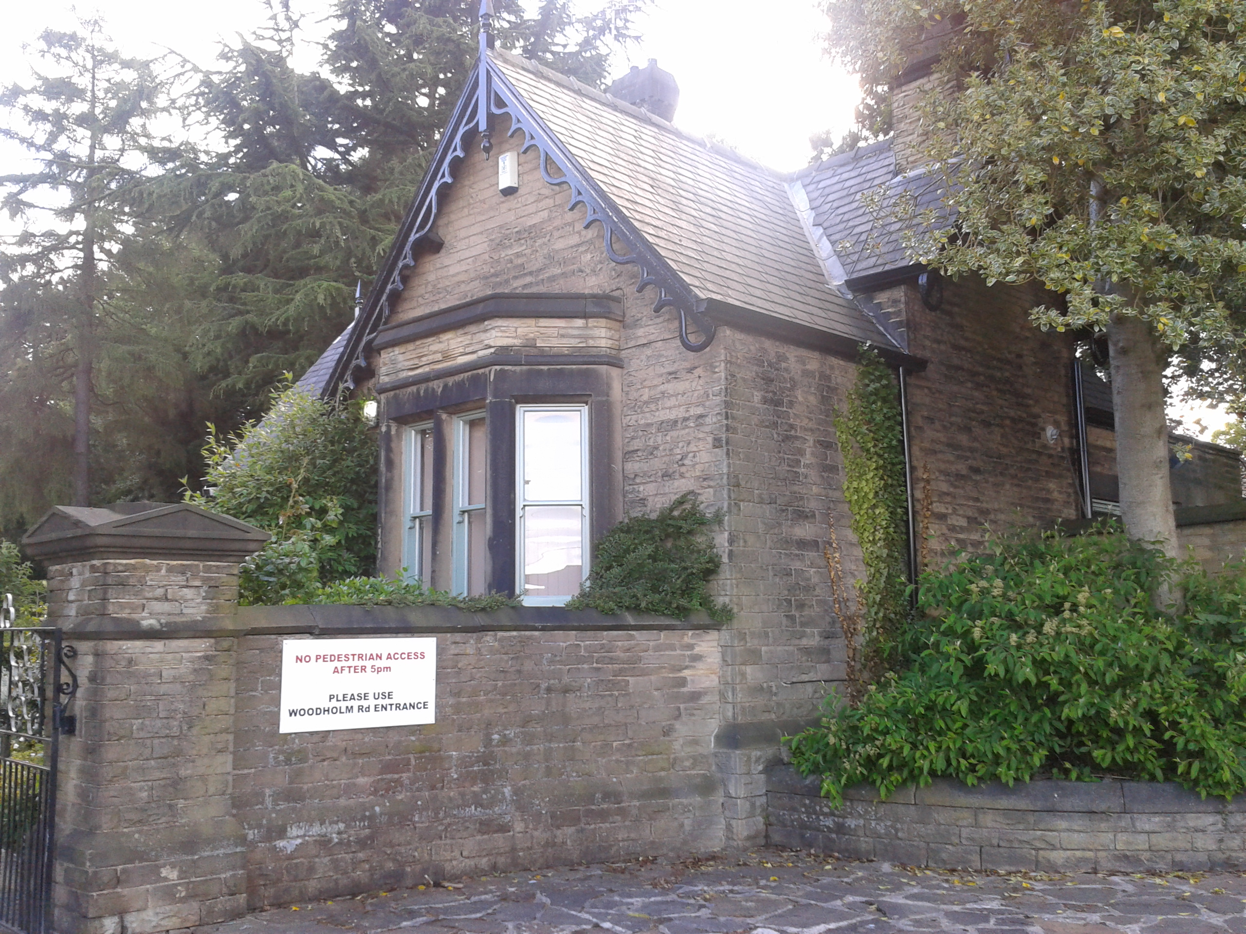 Lodge to Mylnhurst, on Button Hill in the Millhouses area of Sheffield